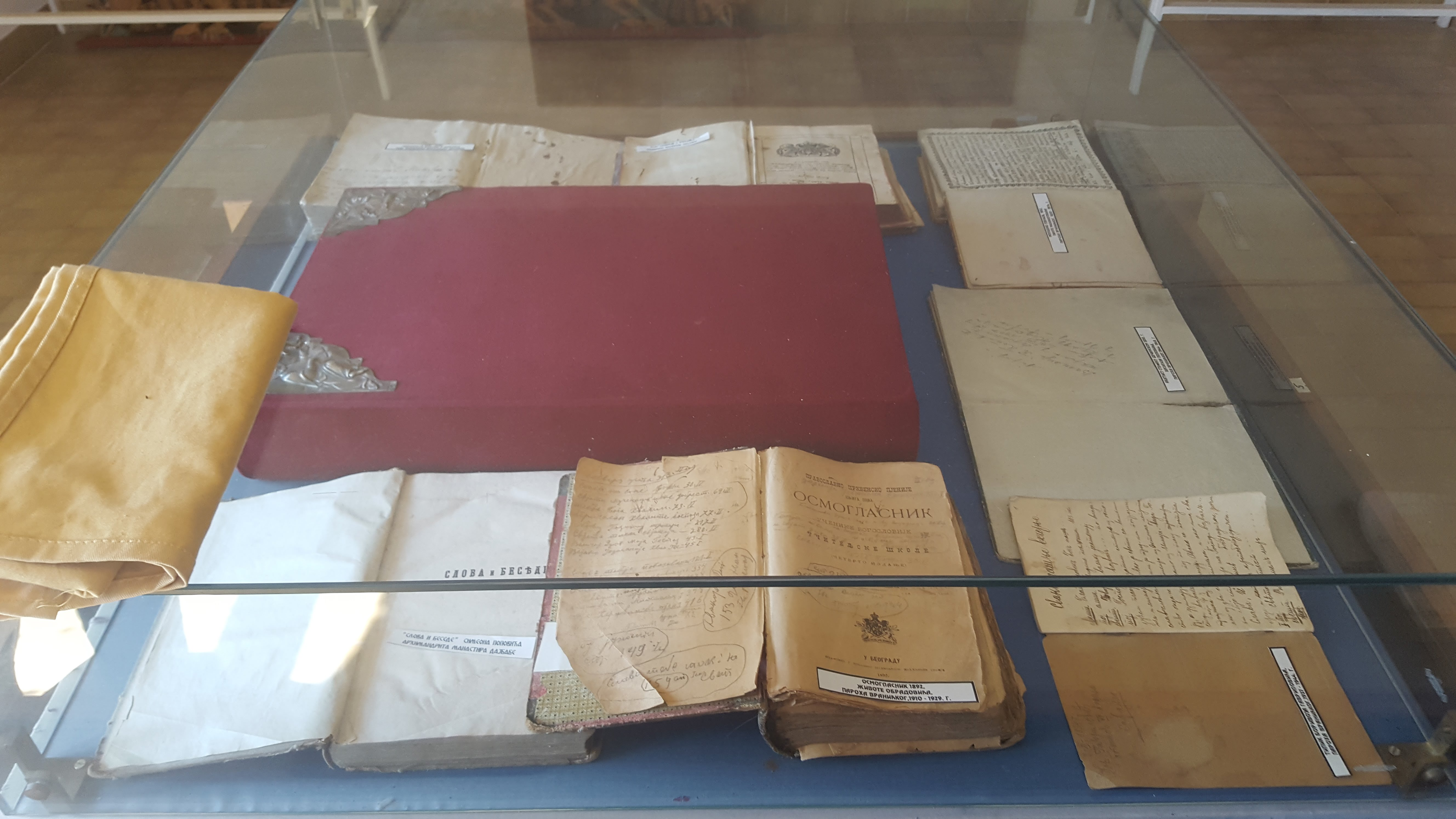 Spomen muzej kod crkve Svetog Ilije u Vraniću